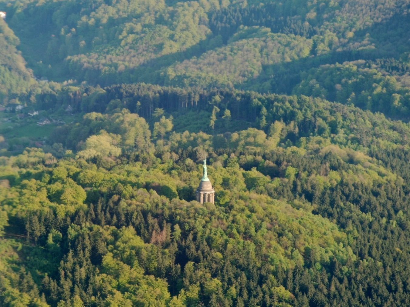 Shot from the cockpit of our Morane, the famous statue of "Herman the German".